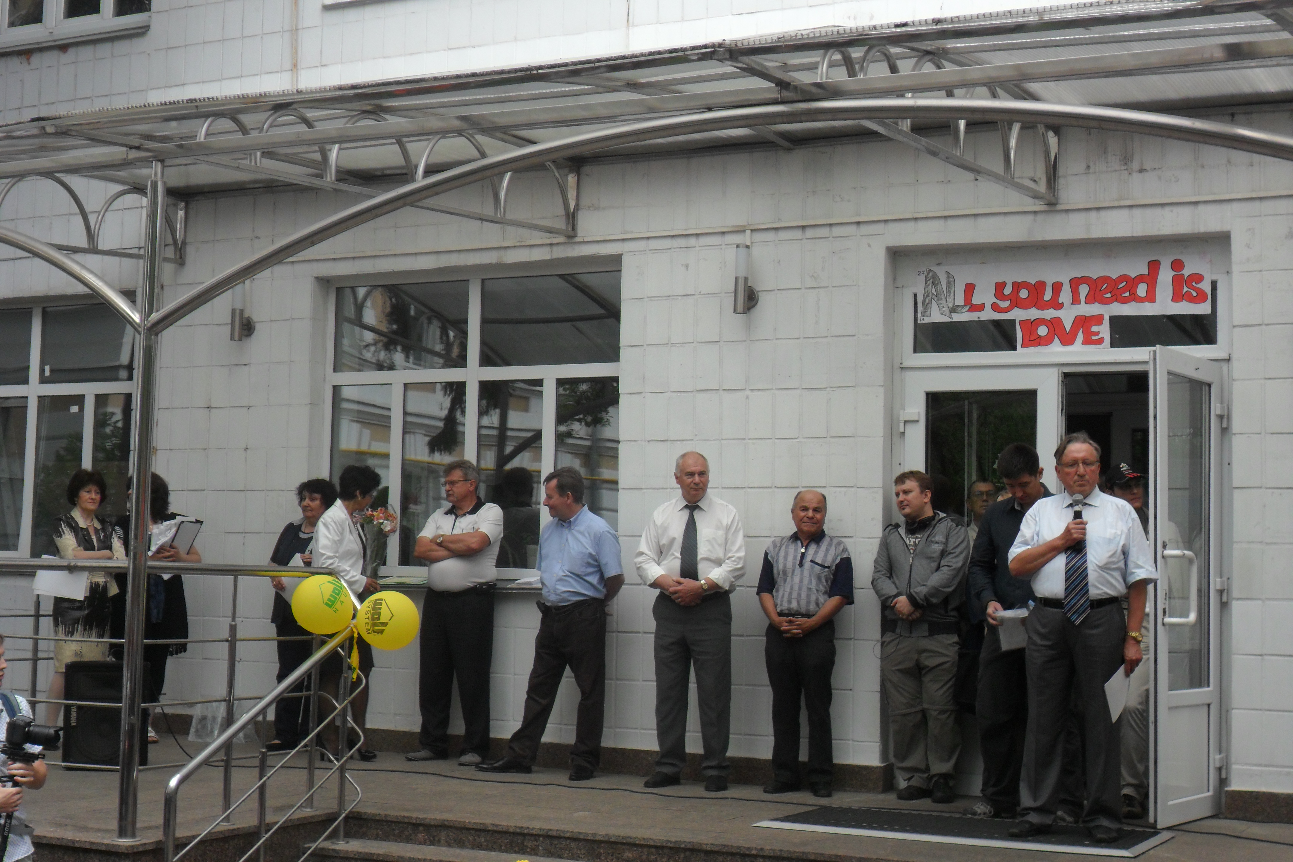 Some teachers of chemistry department of Taras Shevchenko National University of Kyiv